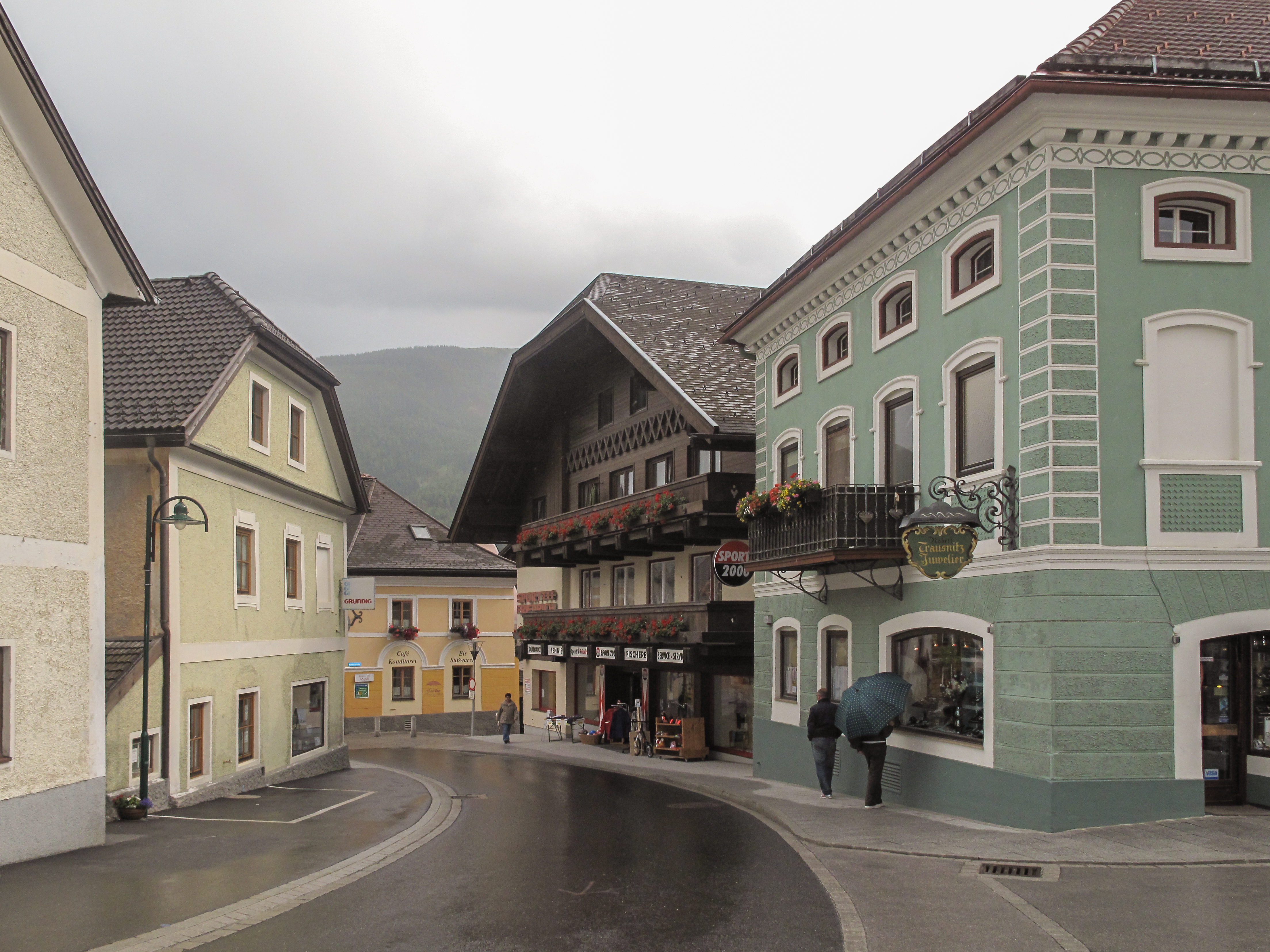 Sankt Michael im Lungau, view to a street